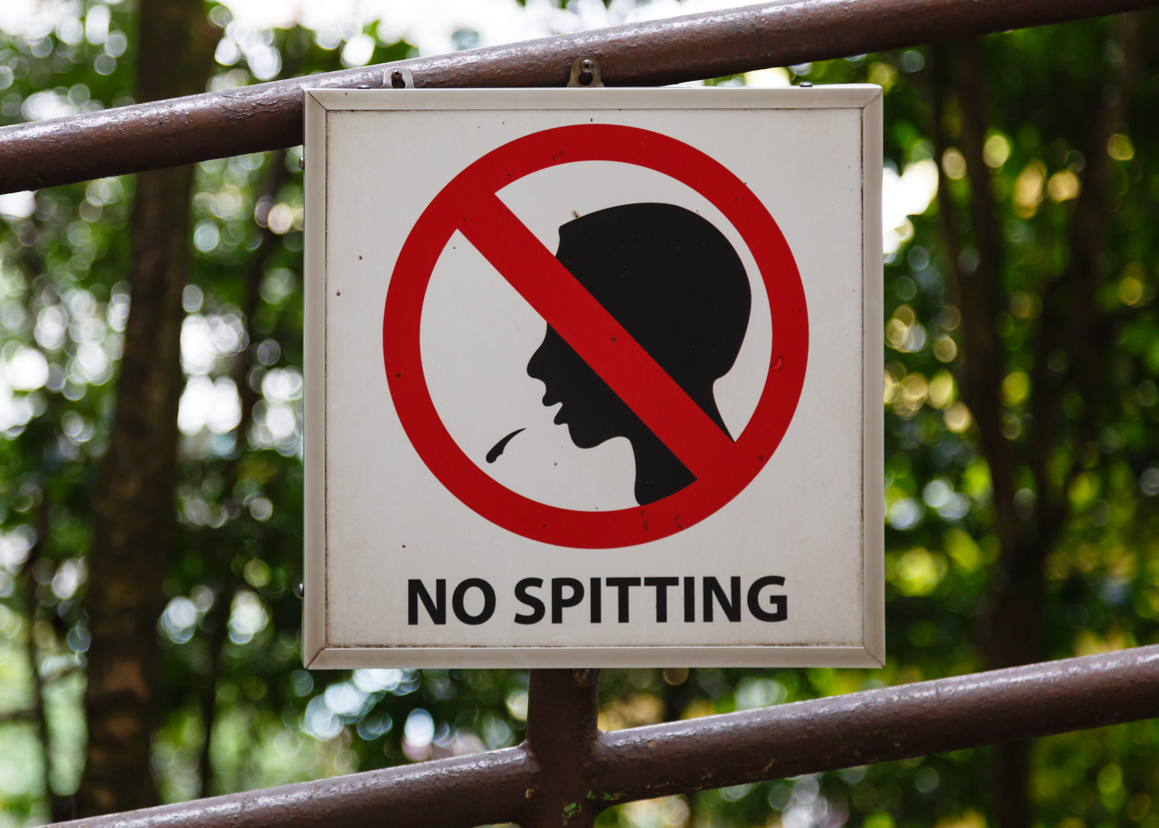 Batu Caves, Gombak, Selangor, Malaysia: "No spitting" sign.